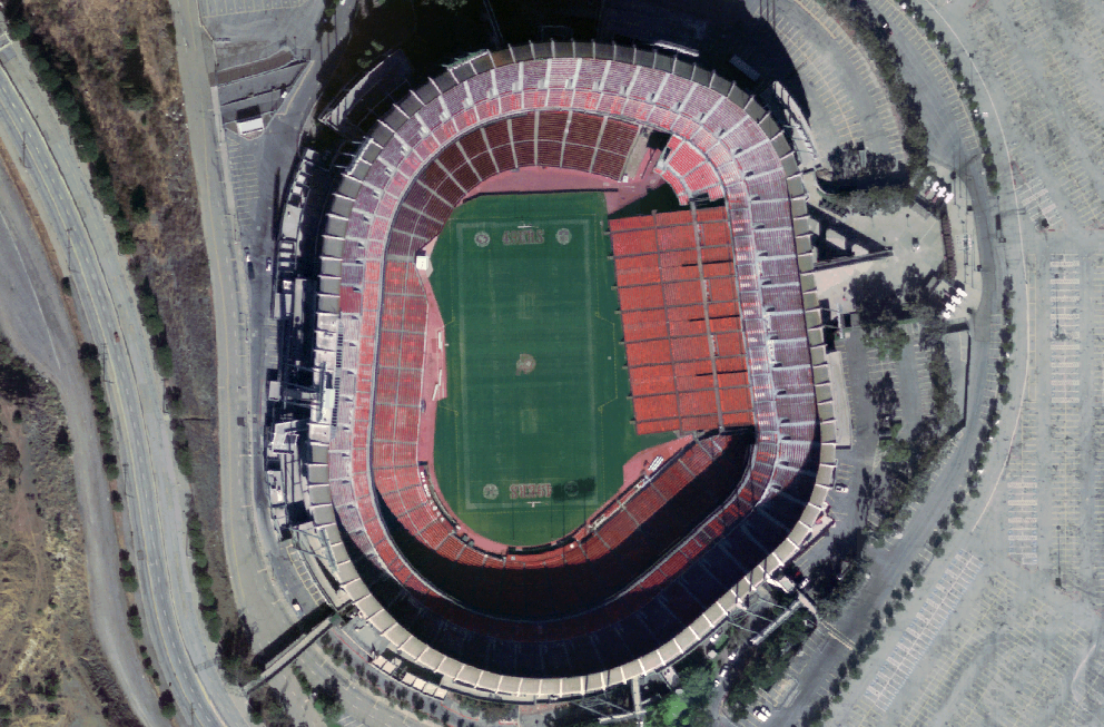 Monster Park (NASA World Wind 1.3.5)